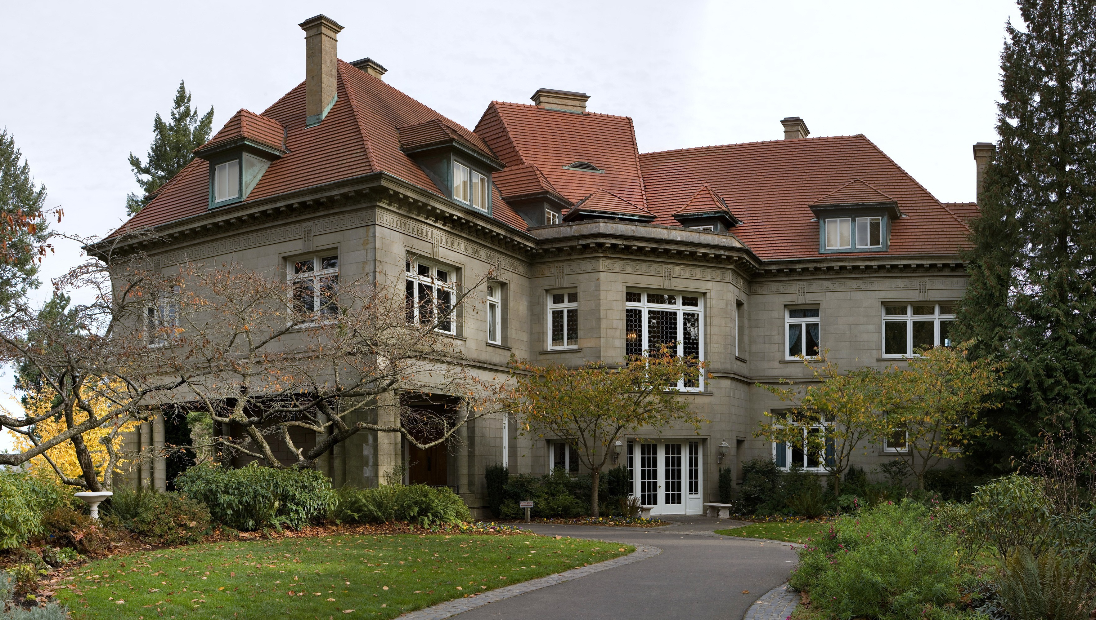 Pittock Mansion in Portland, Oregon, USA. This is the west façade, or front, the location of the main entrance.